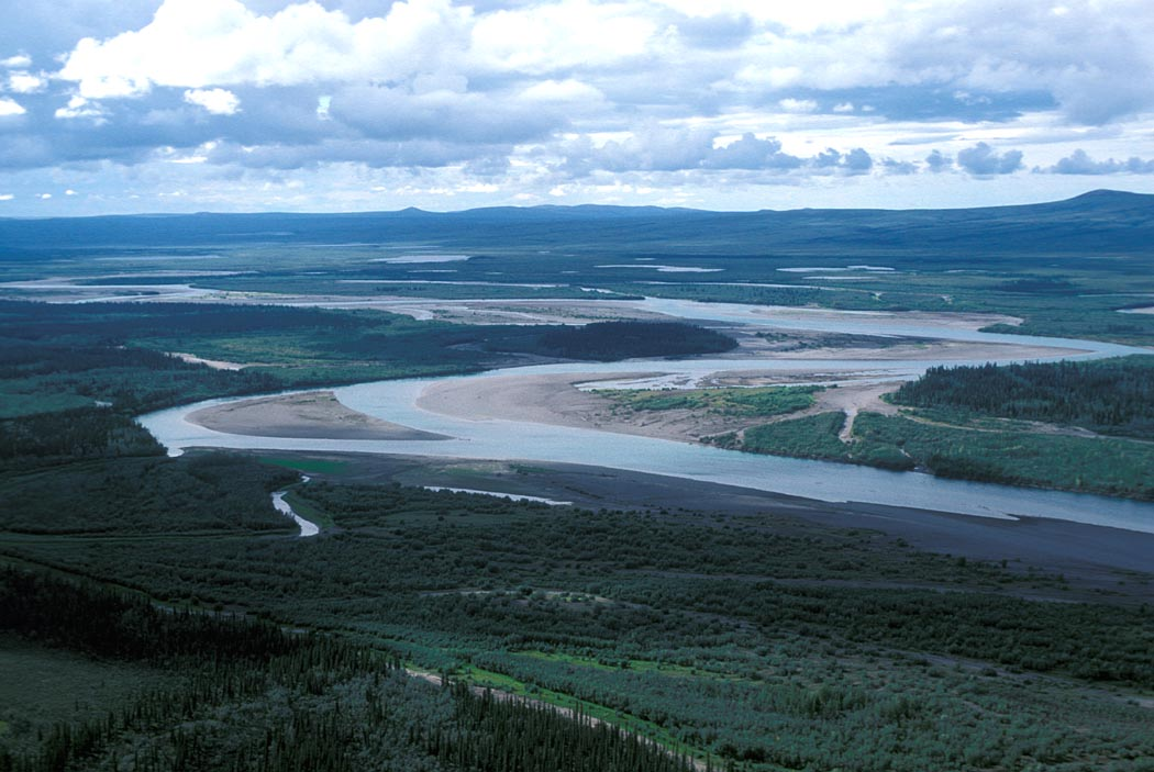 Noatak River Flats - Aerial View